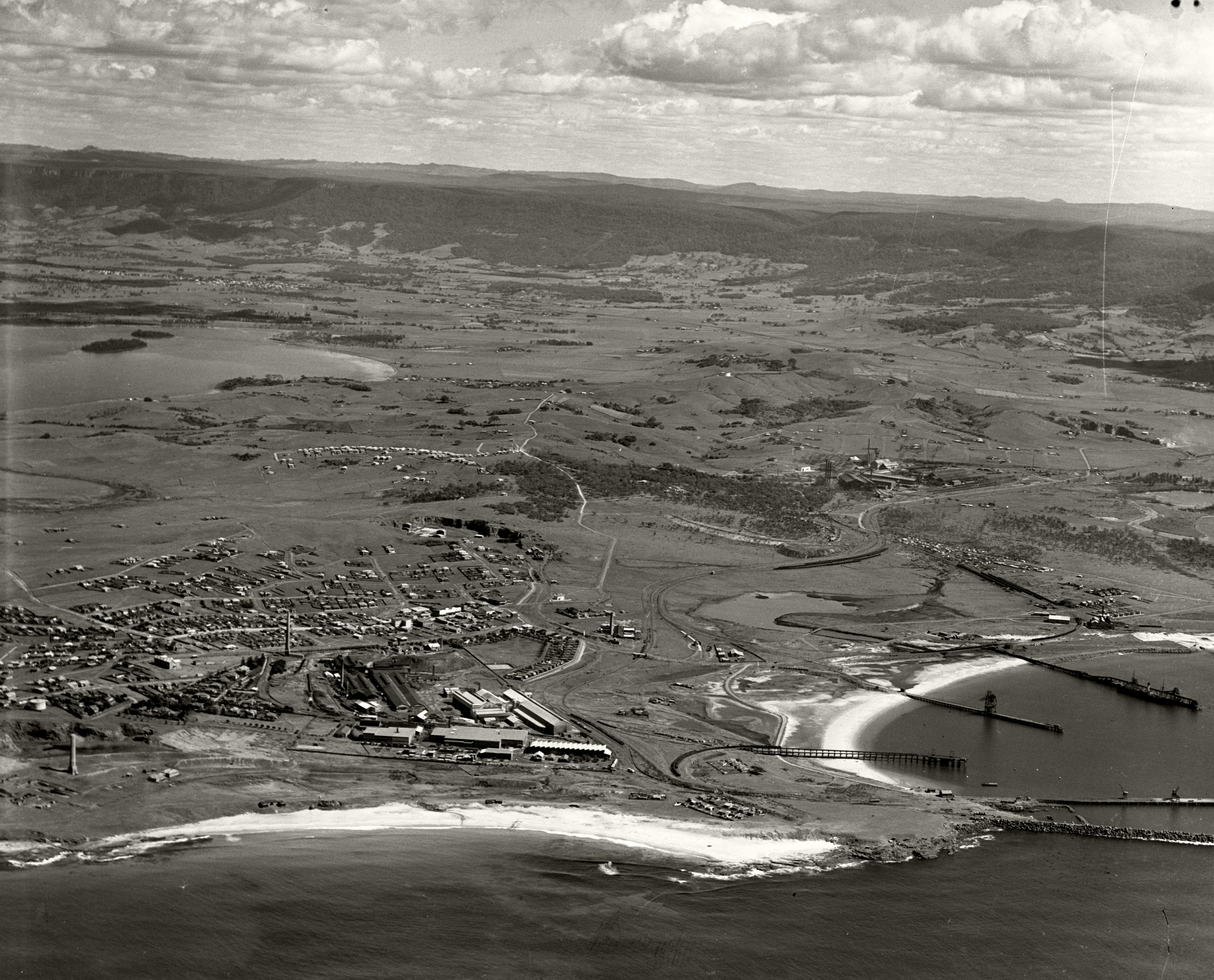 The Royal Australian Historical Society is heading to Wollongong to stage its annual conference on Saturday 22nd and Sunday 23rd October at Centro CBD – 28 Stewart St. Wollongong NSW. The digital revolution is impacting how we research and produce history. There is also an increasing appetite for local and community history that connects people to their identity and place. History plays a critical role in advocacy campaigns to ensure that these places remain part of our cultural landscape in this era of widespread urban development. How historical societies engage with these developments is critical to ensure their continued relevancy in 21st century Australia. The RAHS invites you to join us to explore these topics, learn skills that will support your history projects and enjoy opportunities to network and share histories with RAHS members and friends. Attend an historical tour and our conference dinner on the Saturday evening. Conference details are on our website, which includes the full program and booking form: Go straight to the program and booking form here